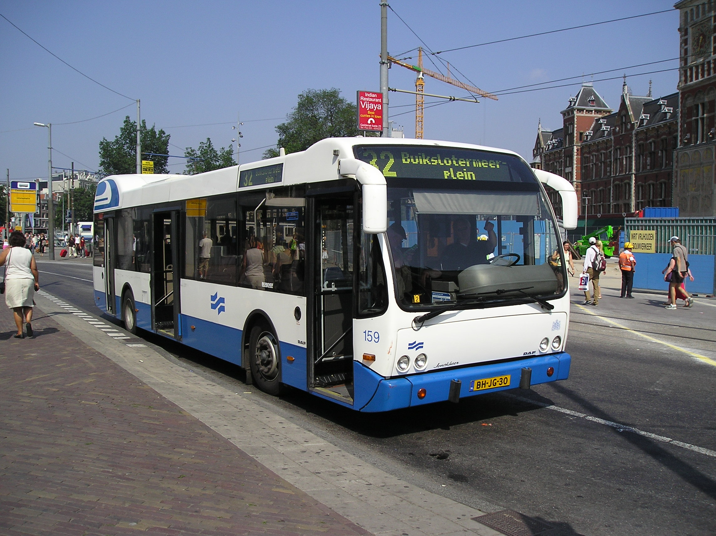 Berkhof Jonckheer 12 city bus (#159, reg. BH-JG-30) with DAF SB250 chassis in Amsterdam, in front of the Central Station. Built 1999, Gemeentevervoerbedrijf (GVB) operator.